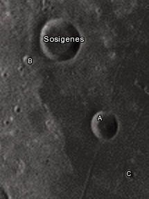 Sosigenes lunar crater as seen from Earth with satellite craters labeled